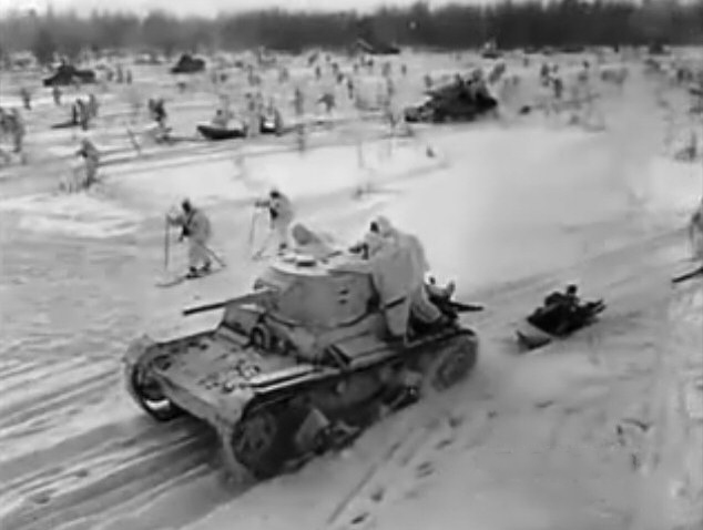 Still from Moscow Strikes Back, Soviet documentary of the Battle of Moscow. Directed by Ilya Kopalin. 1 of 4 films to win the 1943 Academy Award for Best Documentary.